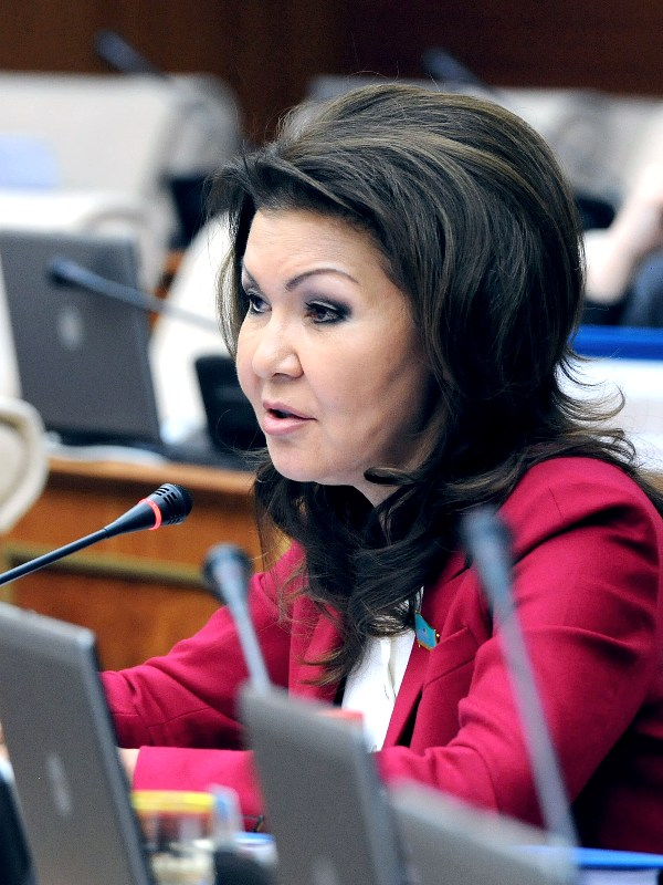 Dariga Nazarbayeva in Mazhilis.